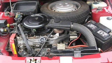 Yugo USA Specification 1.1L